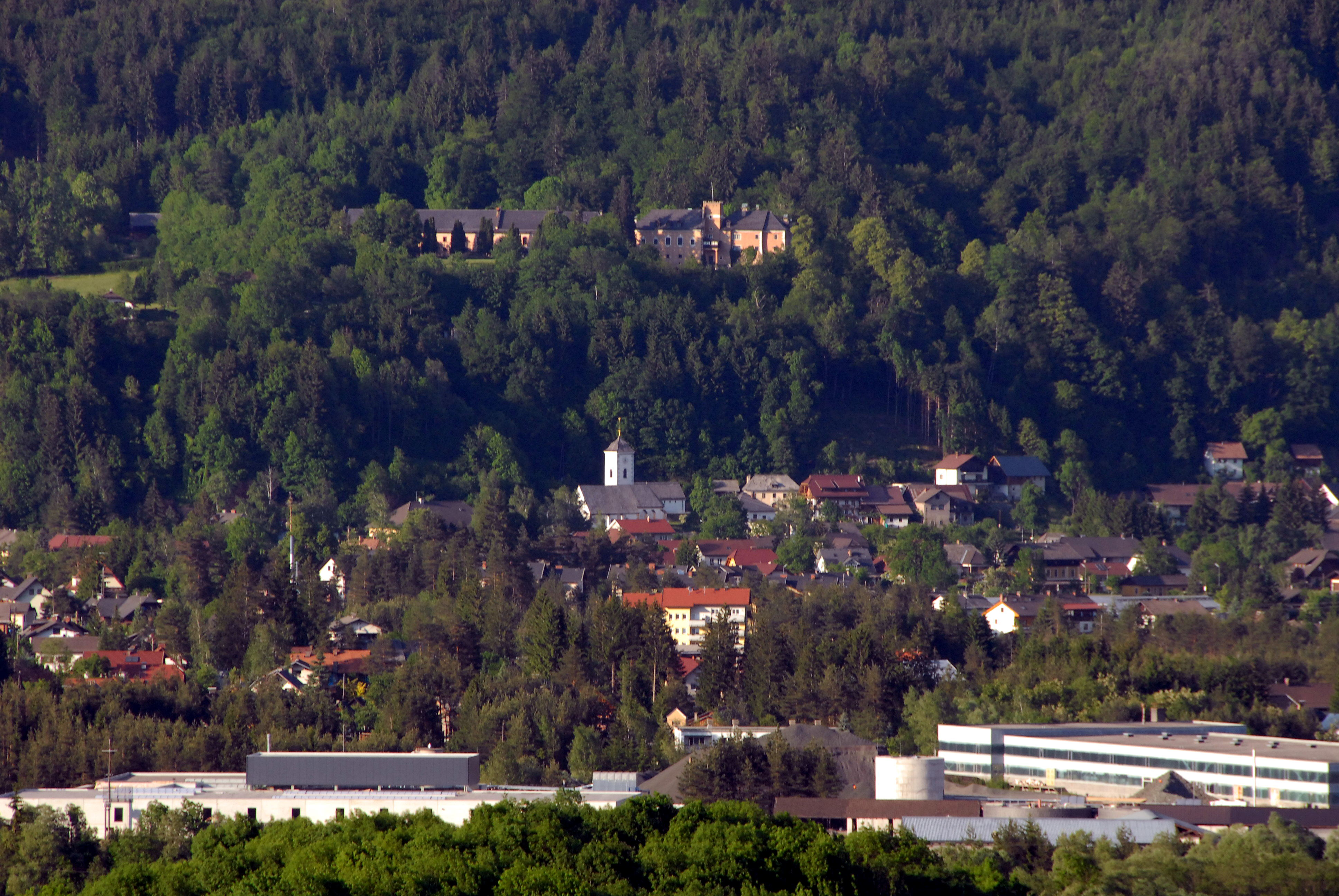 Saak and castle Wasserleonburg (and left to it it's farm building) in the community Noetsch, Carinthia, Austria Wasserleonburg: Farm building Wasserleonburg: Parish church Saint Kanzian: Former rectory: Former rectory